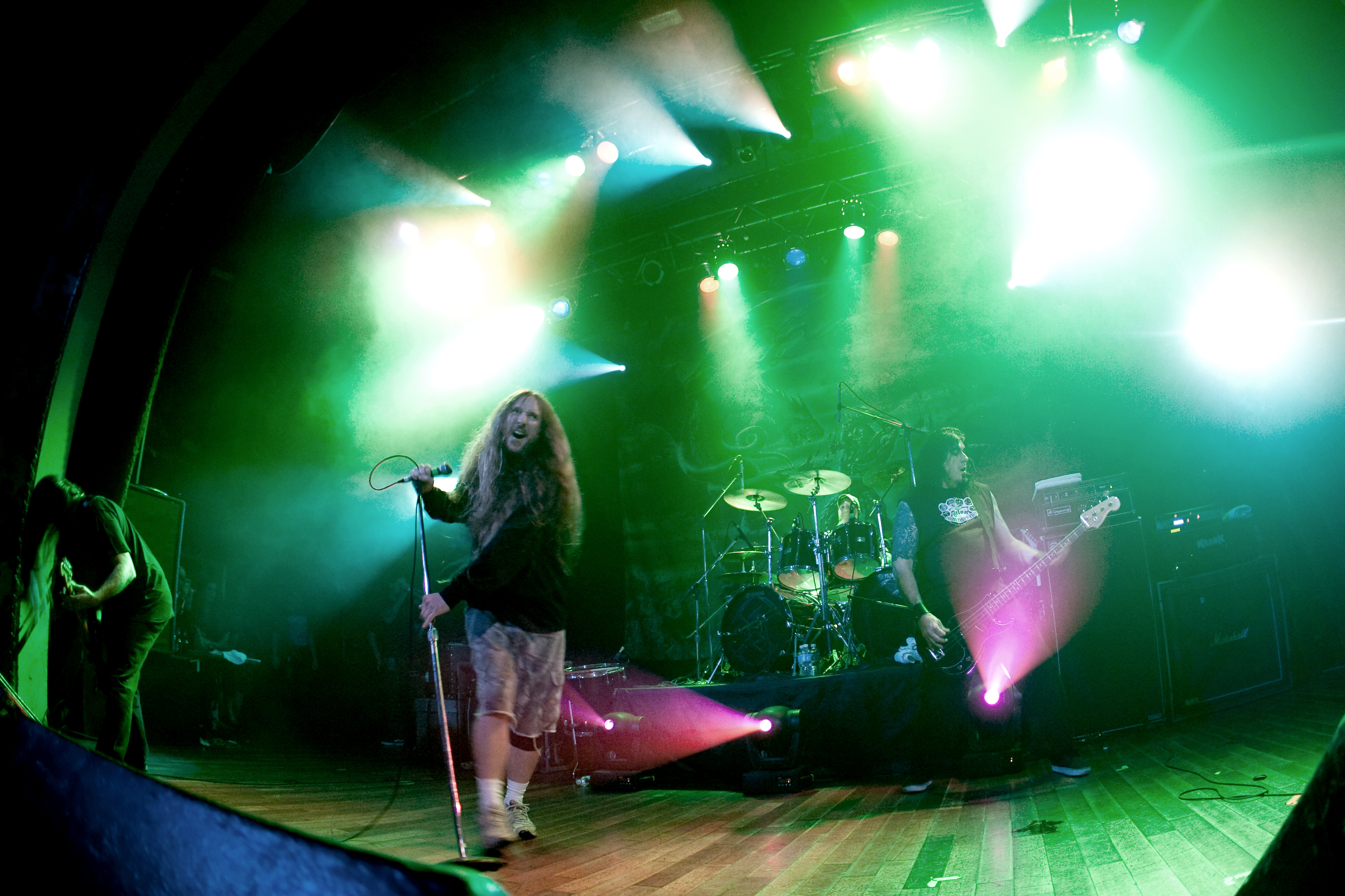 Obituary live in Toronto, Canada, September 25 2009